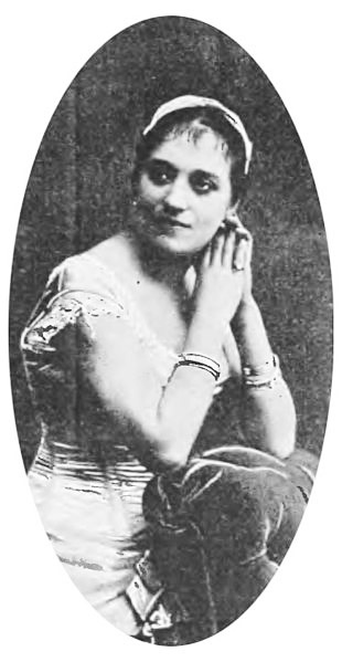 Portrait of French singer Amiati in Paulus' Memoirs